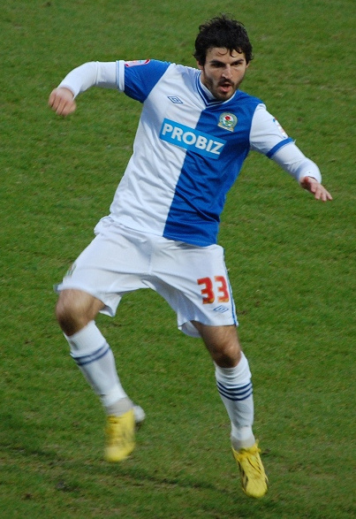 Simon Vukcevic playing for Blackburn Rovers